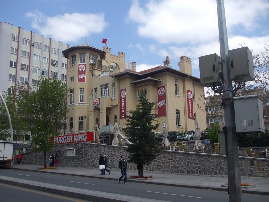 Fast food restaurant (Demirtepe, Çankaya)